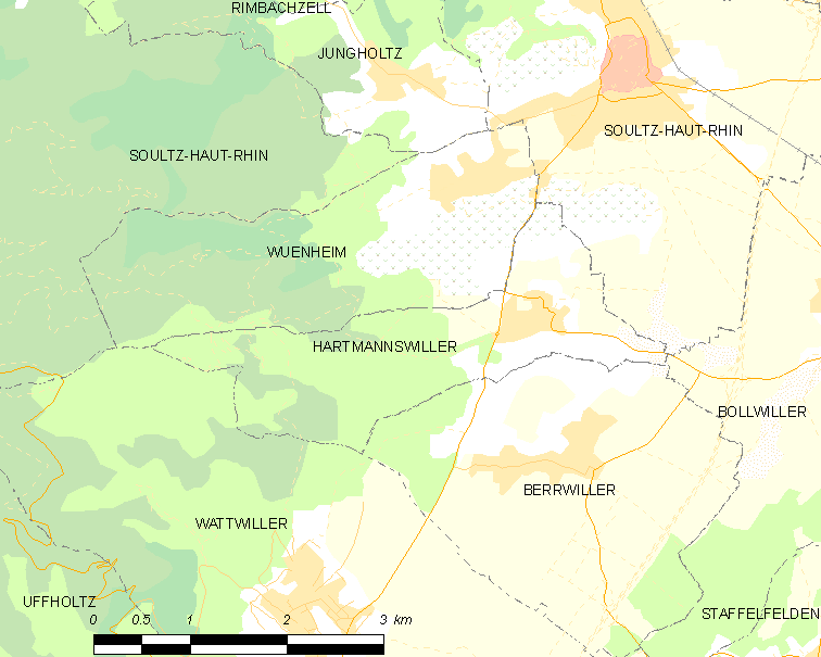 Map of French municipality